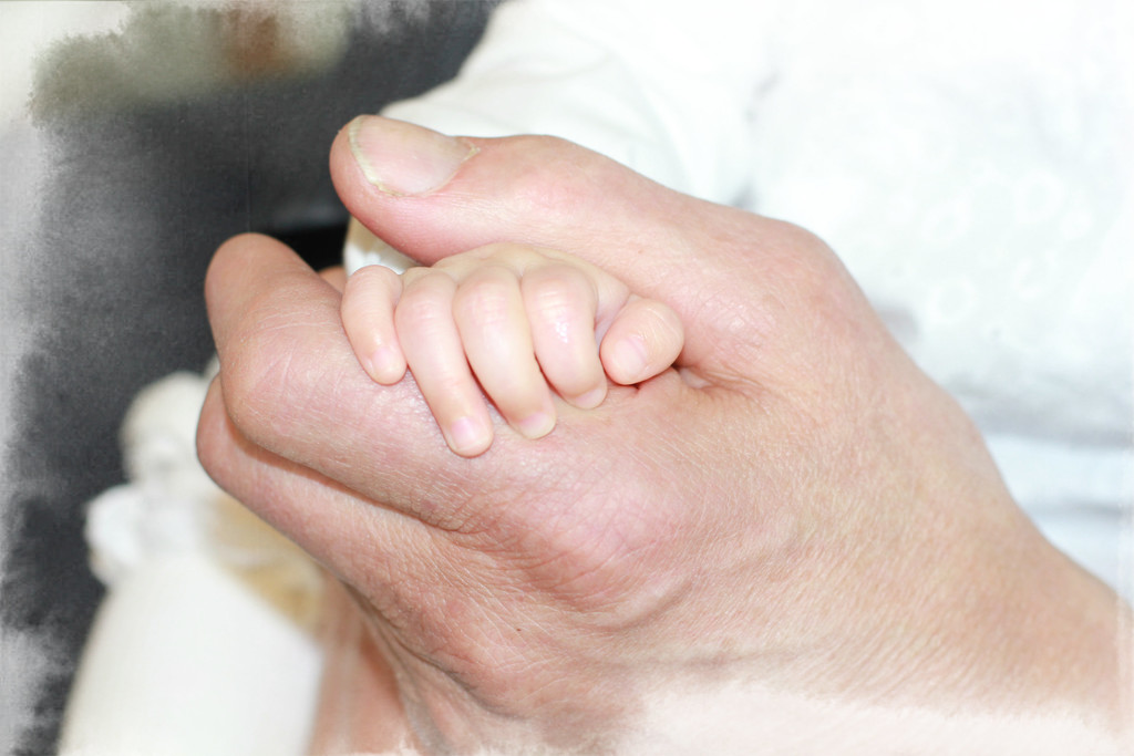 Young and old hand.